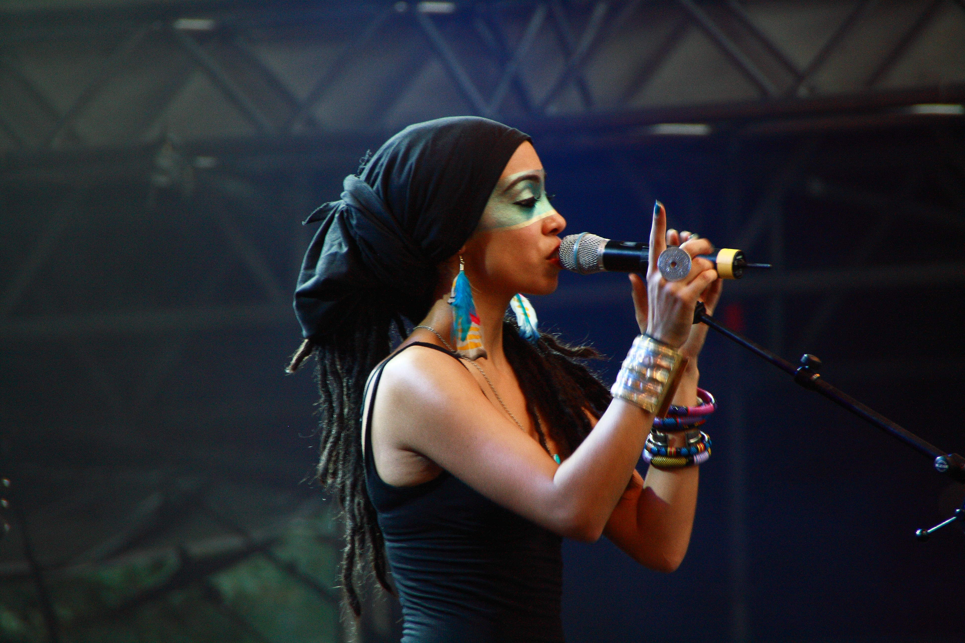 Blue King Brown at TFF.Rudolstadt 2010